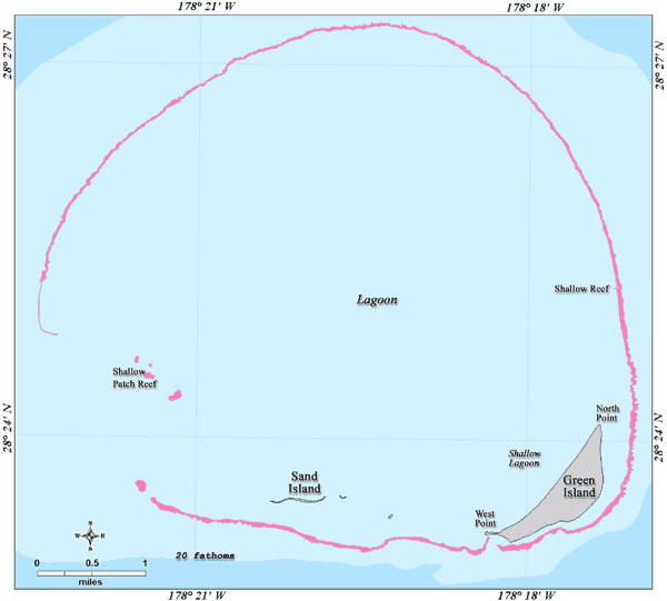 Bathymetric map of Kure Atoll, Northwestern Hawaiian Islands